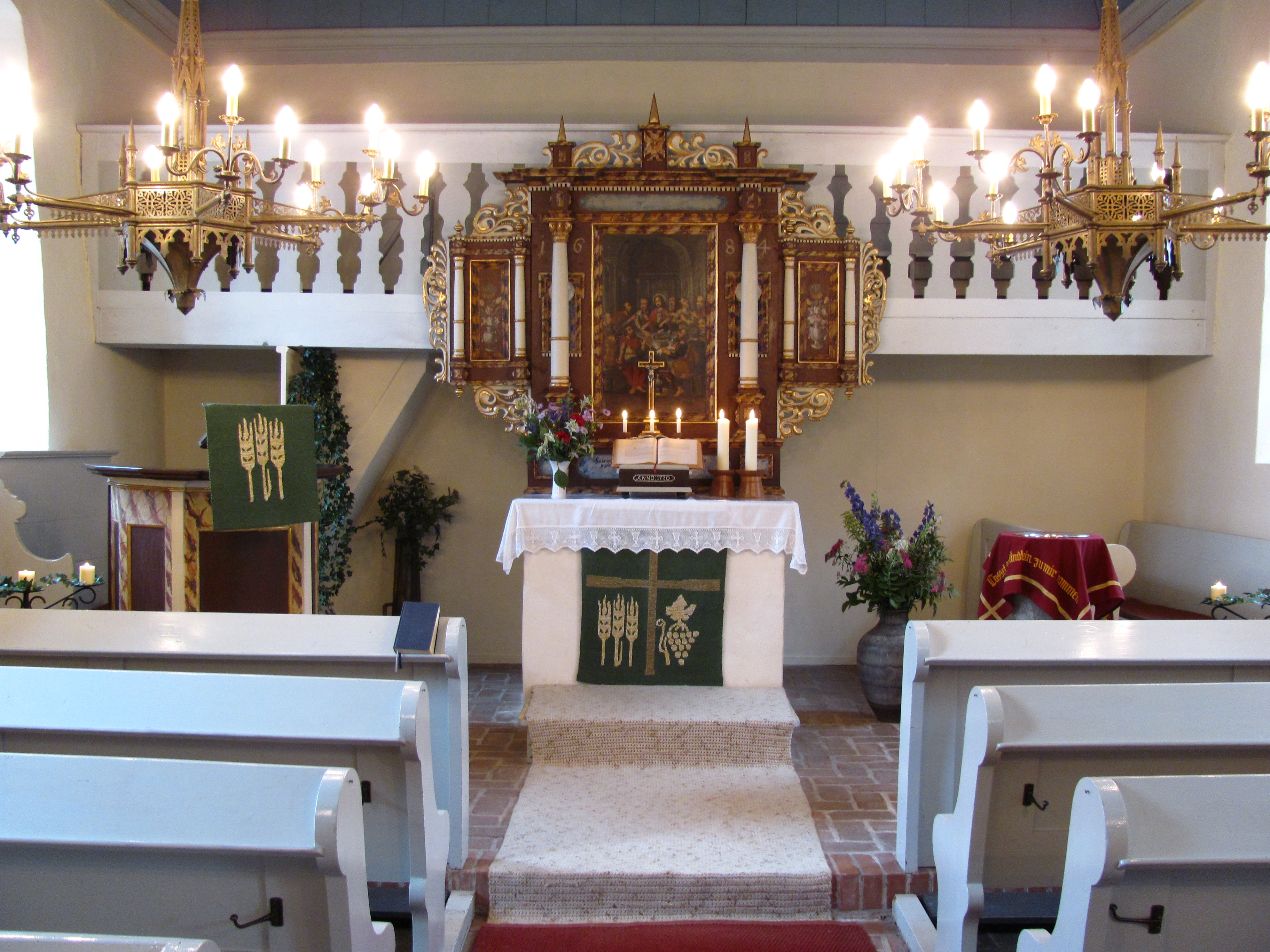 St. Paul's Protestant Church, Sibbesse-Hönze, Lower Saxony, Germany